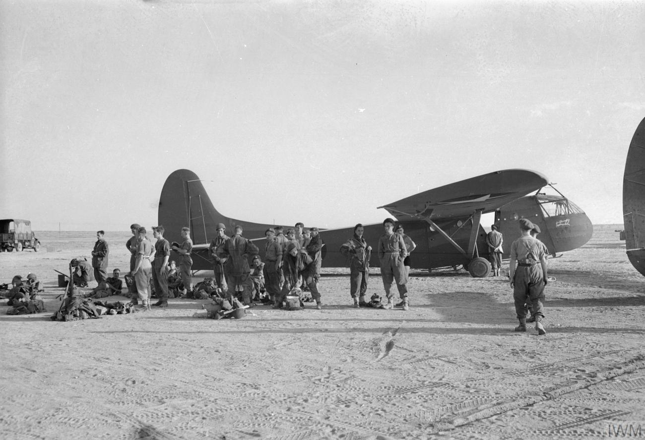 The Campaign in Sicily 1943 Planning and Preparations January - July 1943: British airborne troops wait to board an American WACO CG4A glider.